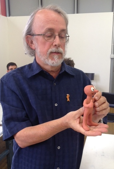 British animator Peter Lord demonstrating his seminal work, Morph.